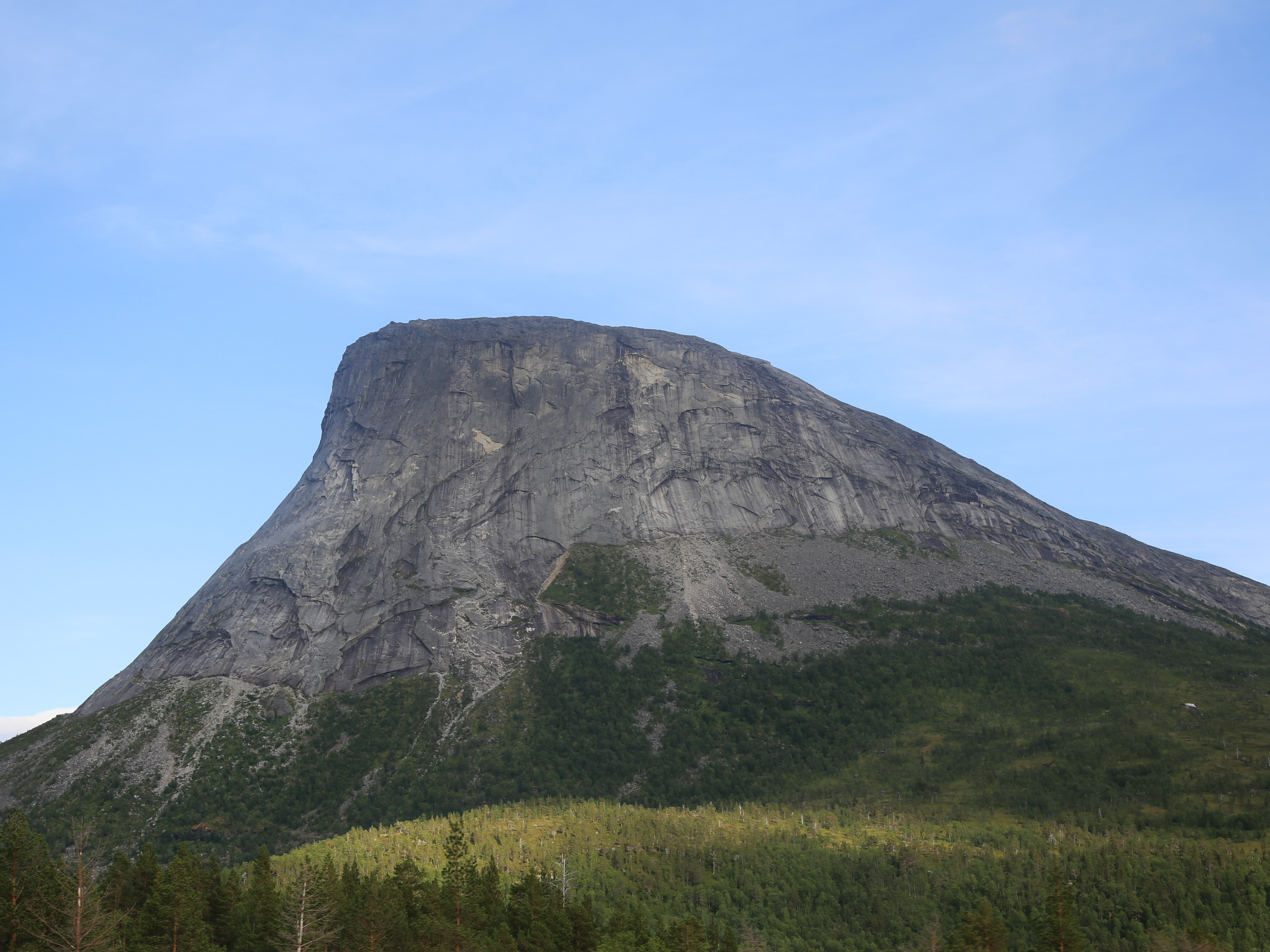 The mountain Kråkmotinden in the municipality of Hamarøy, in the region of Nordland in Norway. Picture taken on the 10th of august 2019. 2019-08-10